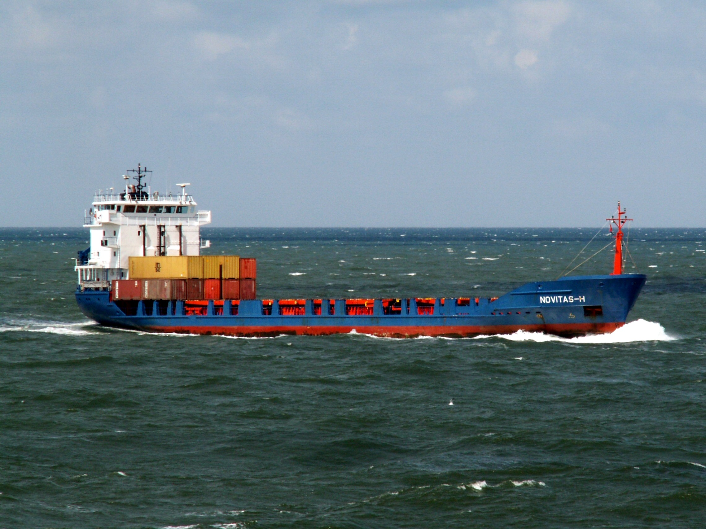 Novitas-H IMO 9107382 approaching Port of Rotterdam 06-Aug-2005.